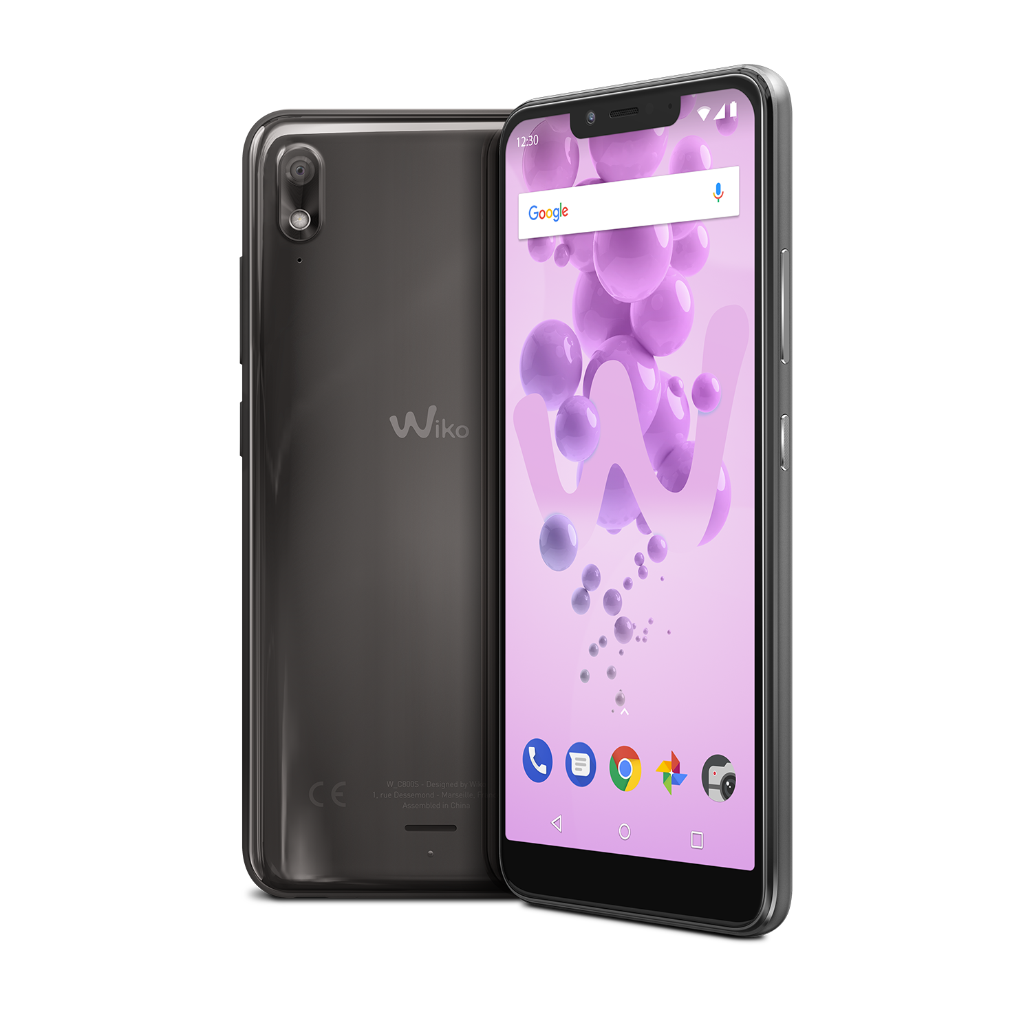 View2 Go